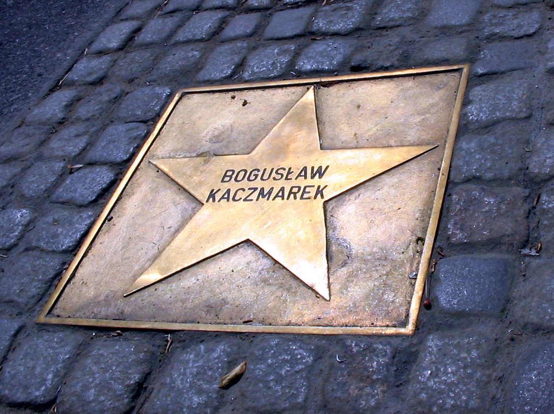 Bogusław Kaczmarek (a football player and coach from Poland).